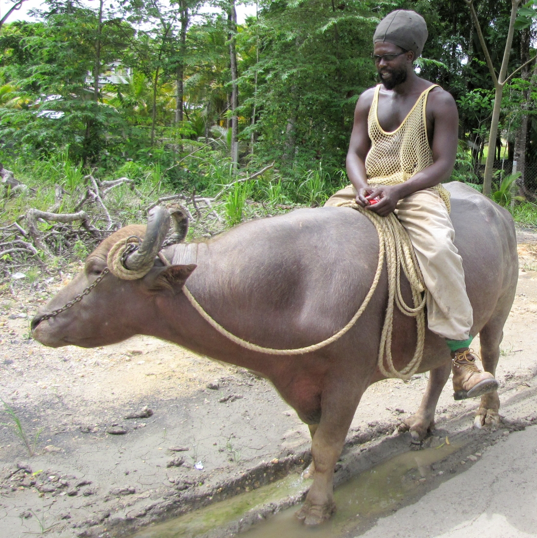 a buffalypso is a breed of water buffalo from Trinidad